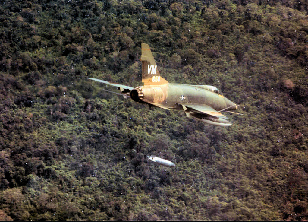 North American F-100D-25-NA Super Sabre 55-3658 of the 352nd Tactical Fighter Squadron, 35th Tactical Fighter Wing, Phan Rang Air Base, South Vietnam dropping a napalm bomb near Bien Hoa, South Vietnam, 1967. Super Sabres could carry an impressive array of weapons, including high explosive bombs, napalm, rockets, cluster bombs and even the guided Bullpup missile. (U.S. Air Force photo)